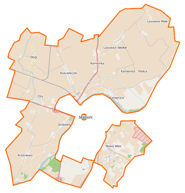 Map of Gmina Malbork, Poland This map of Malbork (gmina wiejska) was created from OpenStreetMap project data, collected by the community. This map may be incomplete, and may contain errors. Don't rely solely on it for navigation.